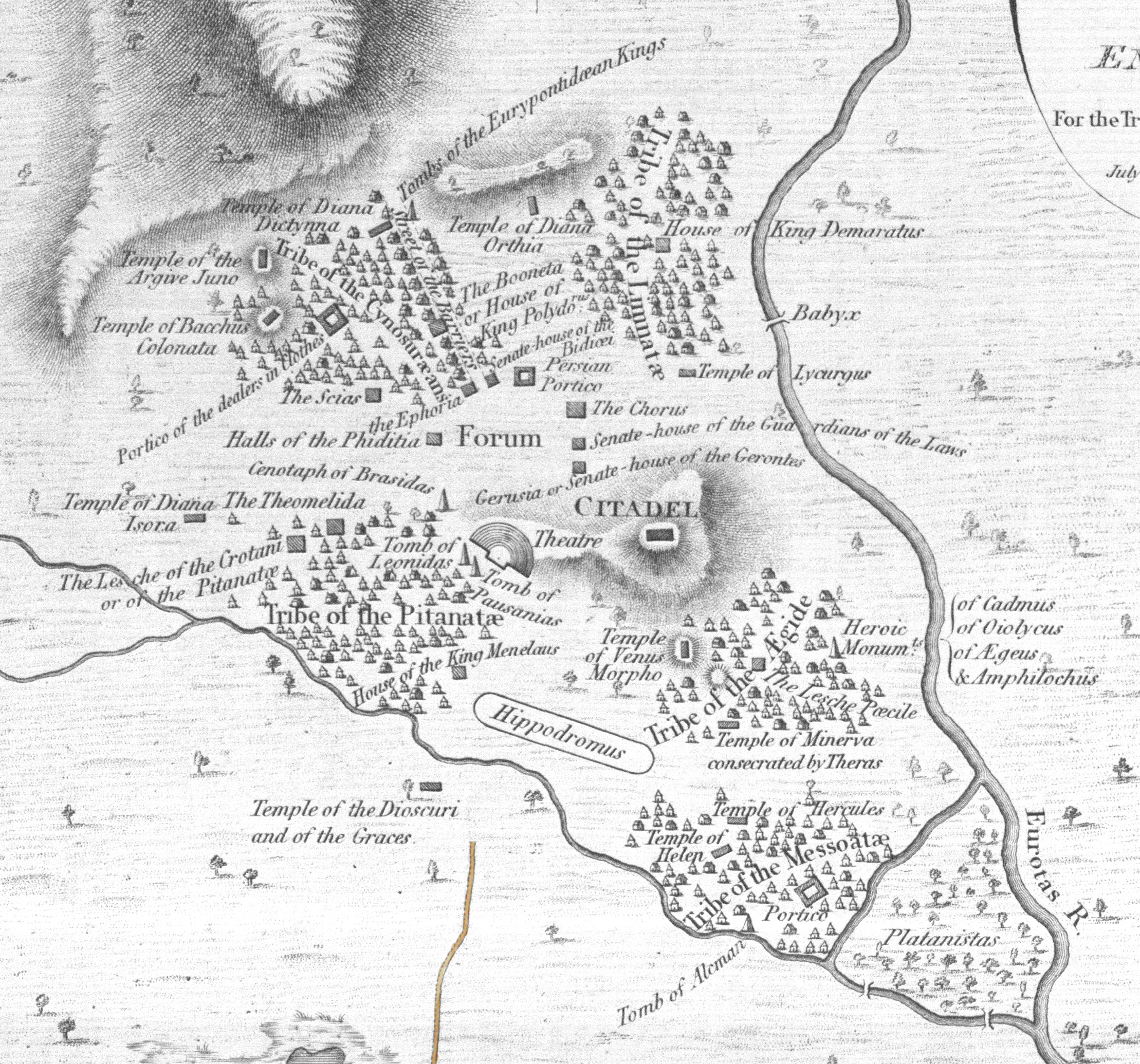 Antique Map of Classical City of Sparta topographic map by J. D. Barbié du Bocage from "Travels of Anacharsis" published 1817 Home Index Sparta topographic map by J. D. Barbié du Bocage from "Travels of Anacharsis" published 1817 antique map of Sparta Note: this map was drawn based upon the interpretation of ancient texts and is not an accurate representation of archaeological evidence.